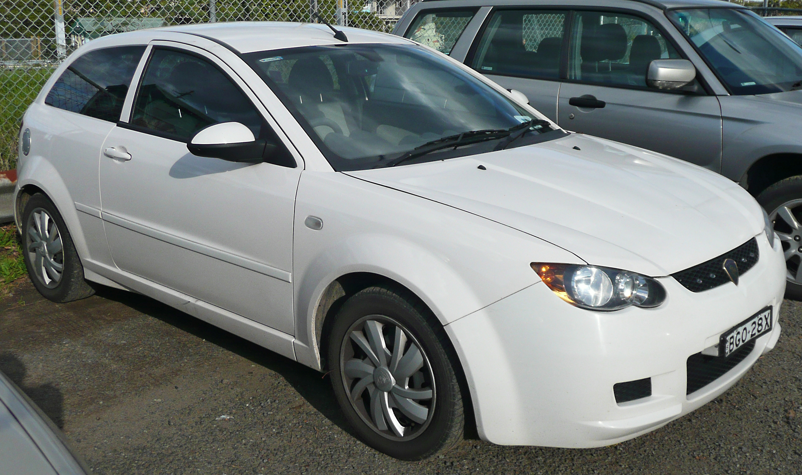 2007–2009 Proton Satria (BS) Neo GX hatchback. Photographed in Sutherland, New South Wales, Australia.